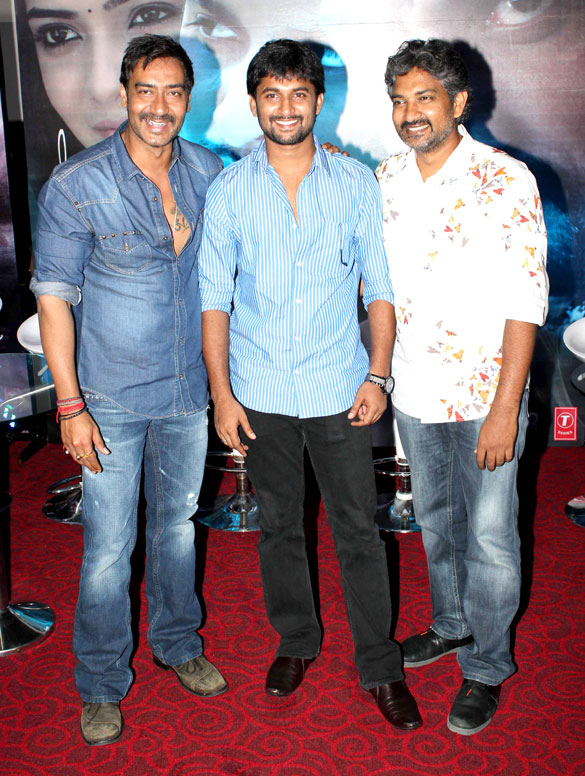 Nani at the special screening of 'Makkhi' With Ajay Devgn and S.S. Rajamouli.